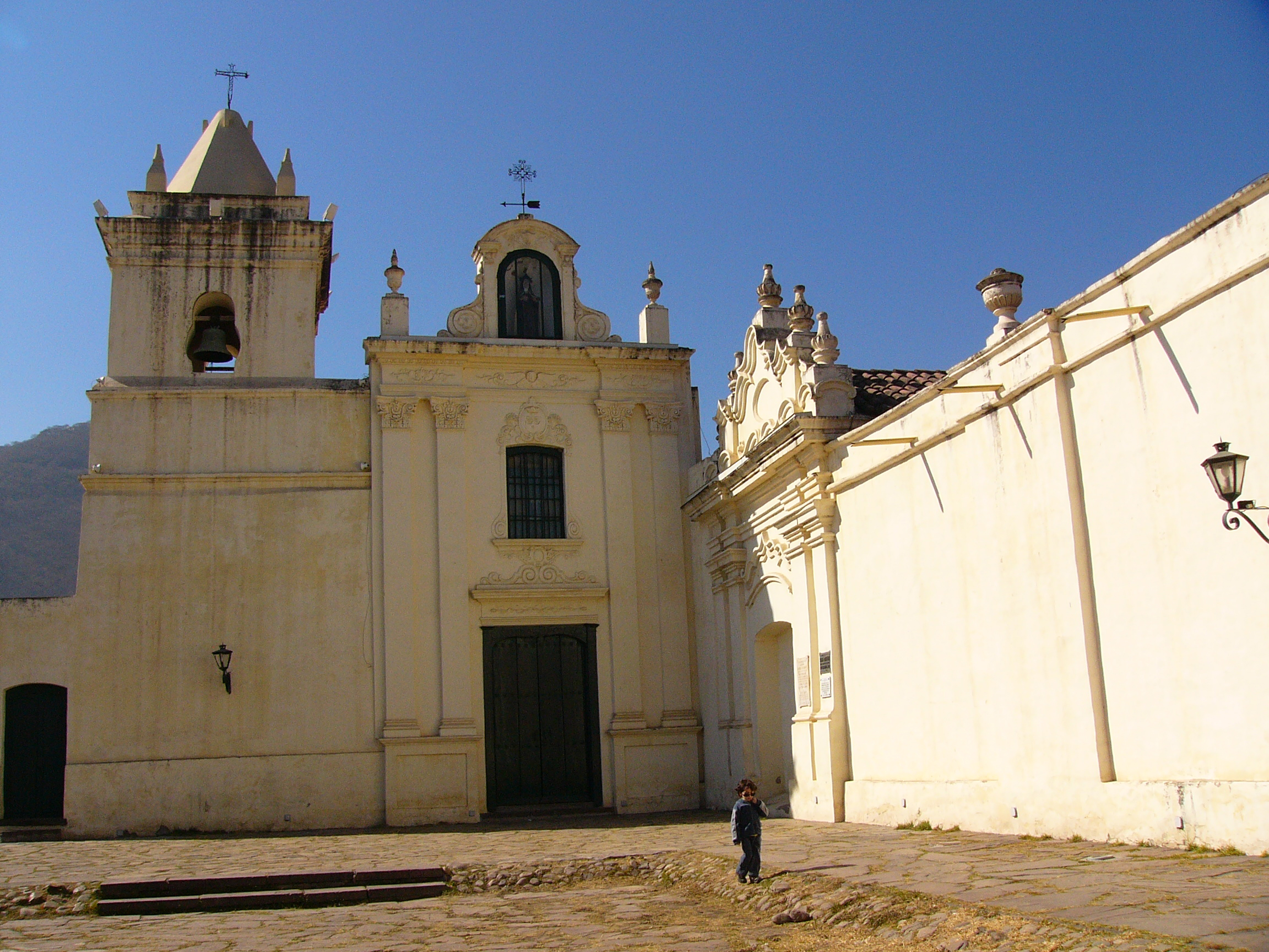 San Bernardo Convent in Salta, Argentina